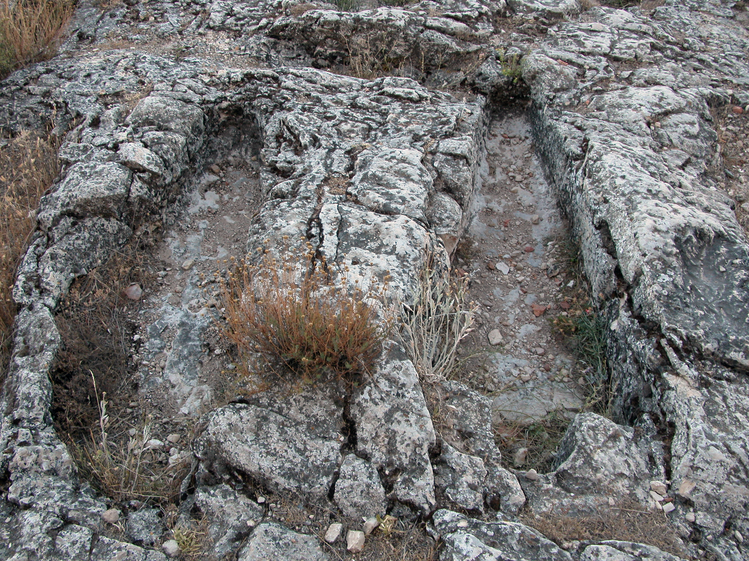 Anthropomorphic graves excavated in the rock, next to the Hermitage of Saint Frutos, Carrascal del Río, province of Segovia This is a photography of a Site of Community Importance in Spain with the ID: ES0000115. Natura2000 entry, EEA entry